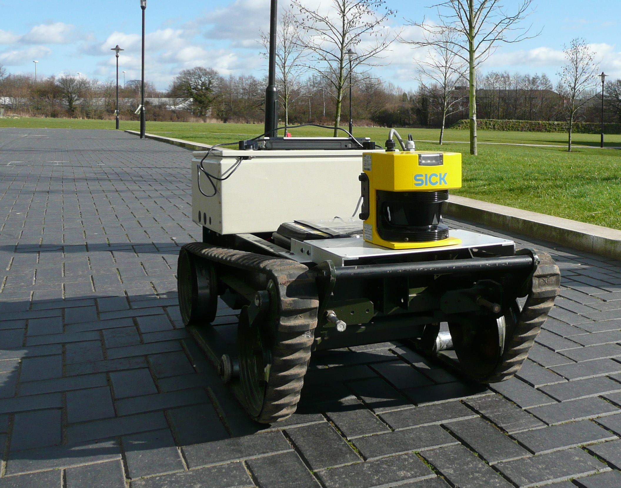 This mobile robot is equipped with a LIDAR sensor, allowing it to map the surrounding area and avoid obstacles.